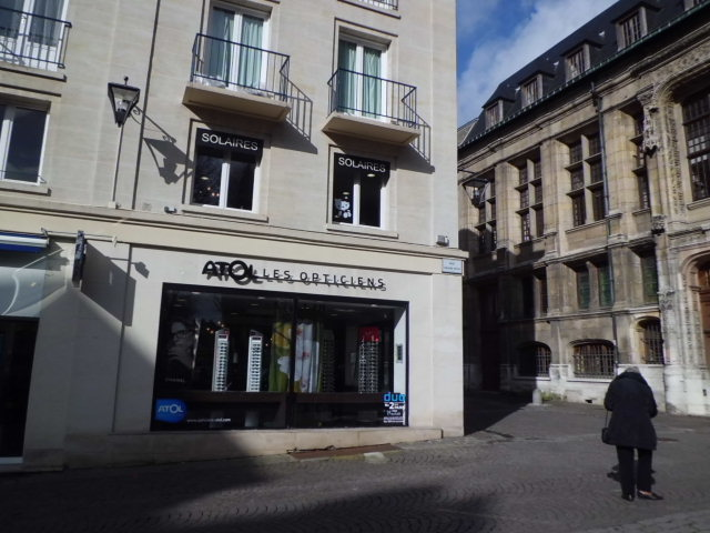 49 rue Grand-Pont, Rouen, Normandy